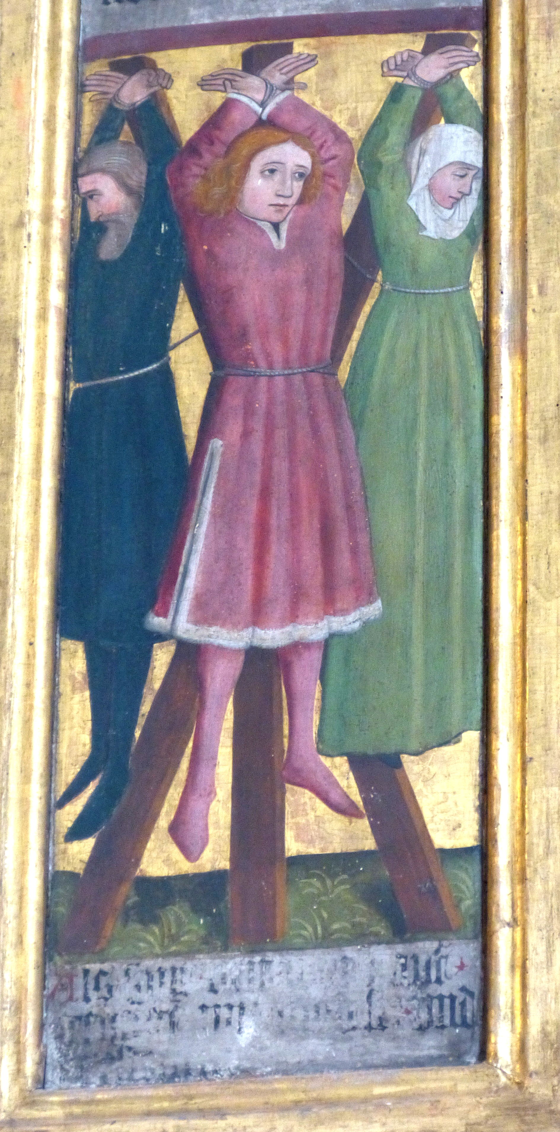 Schwabach - City Church. Altar of Saint Vitus ( 1450 ) - Martyrdom of Saints Vitus, Modestus and Crescentia.